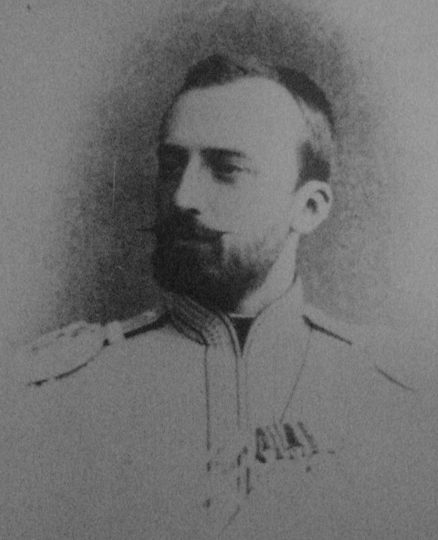 Michael Nicholaievich grand duke of Russia, grandson of Nicholas I